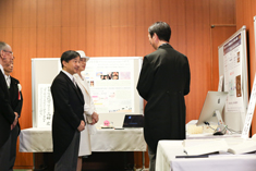 Makoto Fujita, Professor of the Graduate School of Engineering, University of Tokyo, gave a lecture to Emperor Naruhito and Empress Masako at the Building of Japan Academy in Taitō Ward, Tōkyō Metropolis on June 17, 2019.